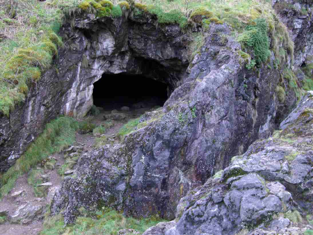 Personal picture taken by Mick Knapton